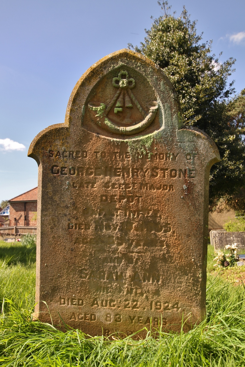 Headstone in St James' parish churchyard, Cowley, Oxford, of Sgt Maj George Henry Stone, Oxfordshire Light Infantry and his widow Sarah Ann Stone. Sgt Maj Stone's date of death has been worn away. His widow died in 1924.